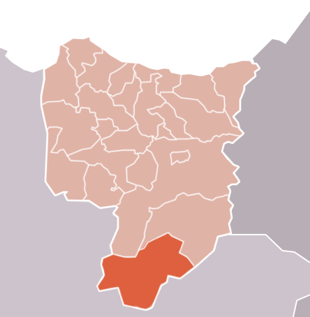 Ain zohra